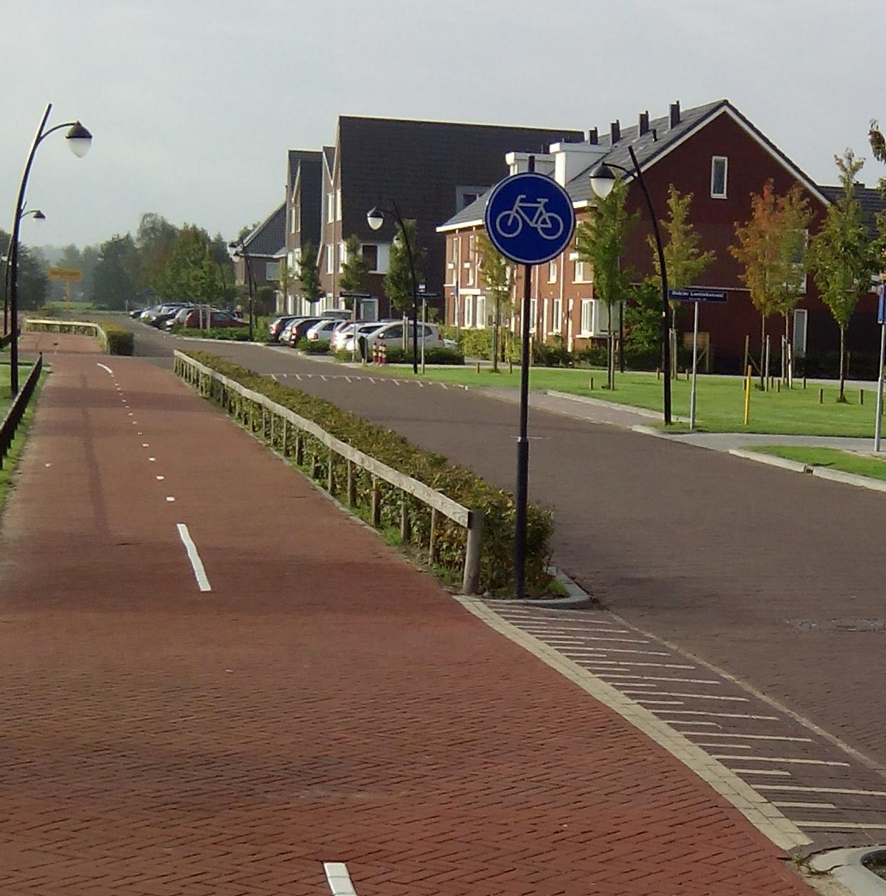 bidirectional obligatory roadside cycletrack in the Netherlands This map may be incomplete, and may contain errors. Don't rely solely on it for navigation.